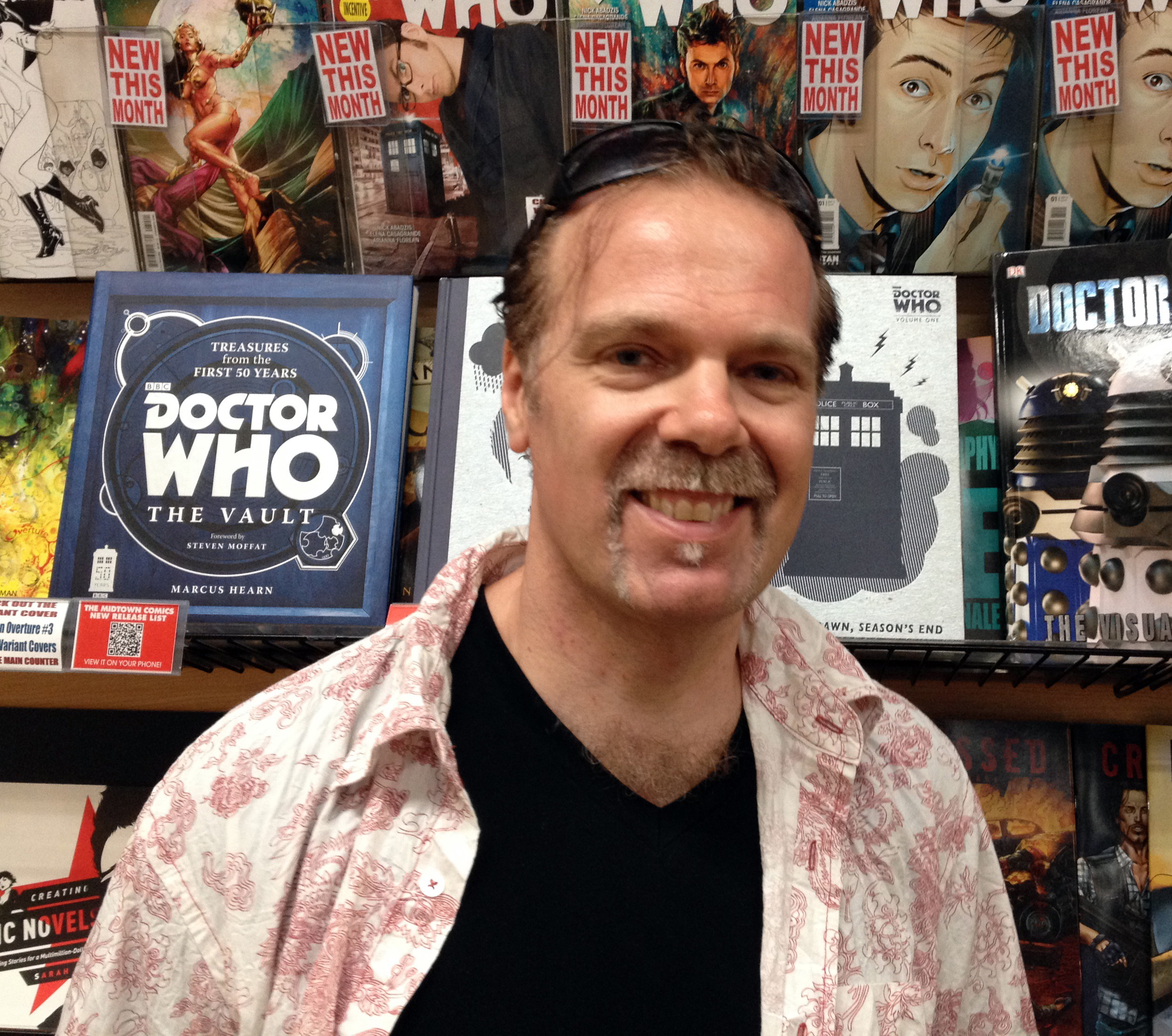 Comics writer/artist Nick Abadzis at an August 2, 2014 book signing for Titan Comics' Doctor Who: The Tenth Doctor #1 at Midtown Comics Downtown in Manhattan. This photo was created by Luigi Novi. It is not in the public domain, and use of this file outside of the licensing terms is a copyright violation.